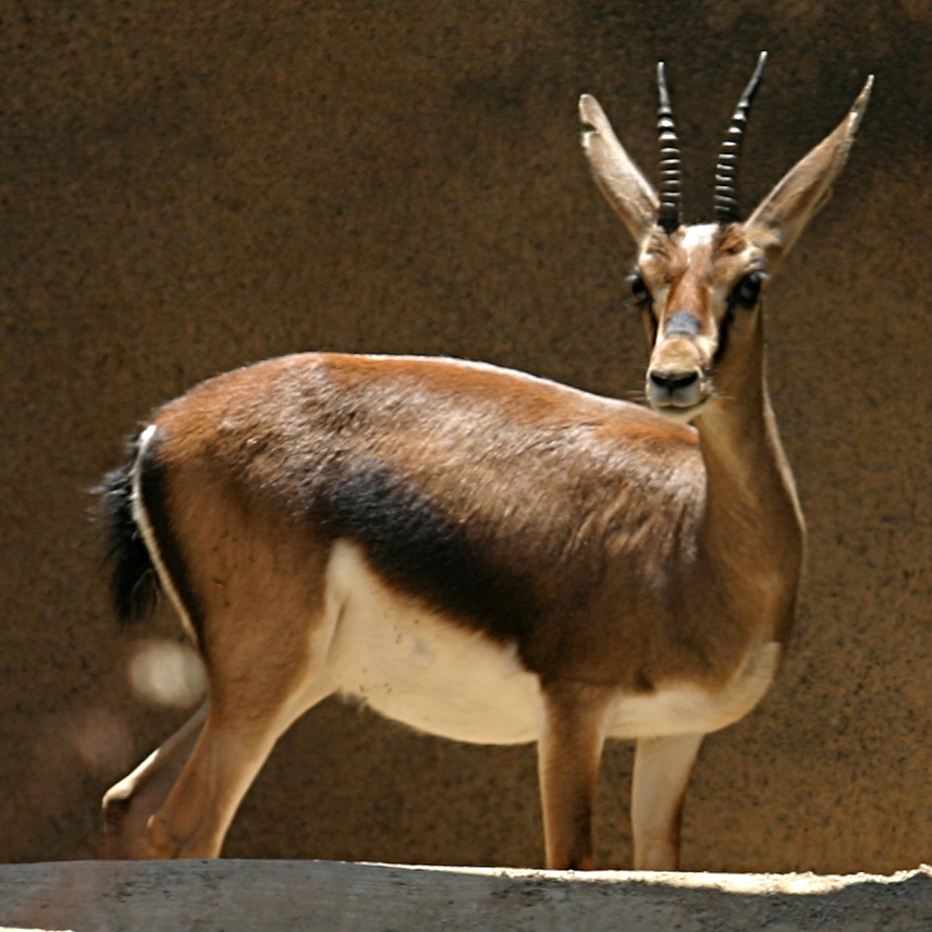 A Cuvier's Gazelle at the San Diego Zoo in San Diego, California, USA.